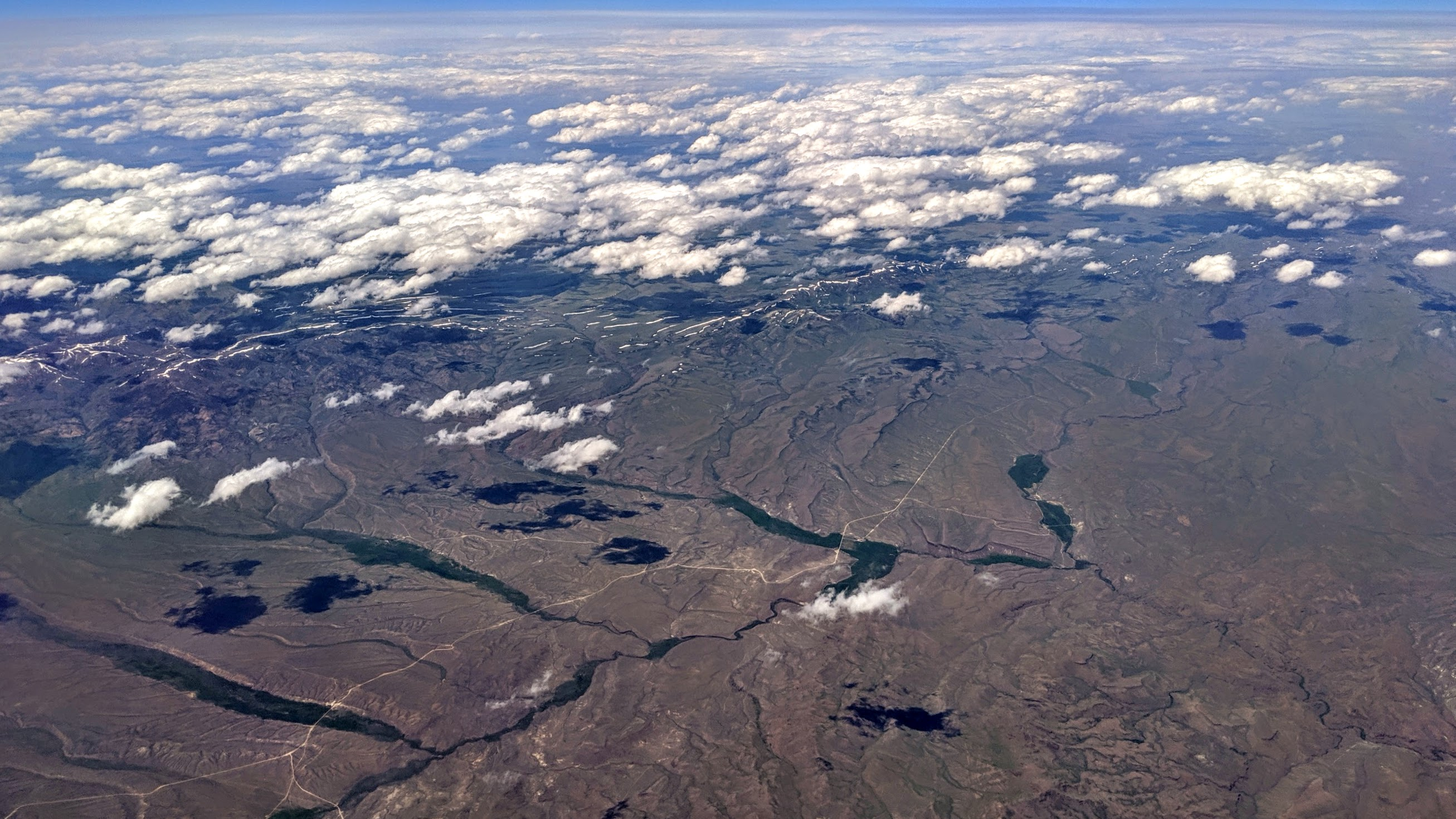 Salmon Falls Creek headwaters area in Utah, with confluence of north and south forks and other tributary streams including Canyon Cree, Cottonwood Creek, Camp Creek, and Sun Creek